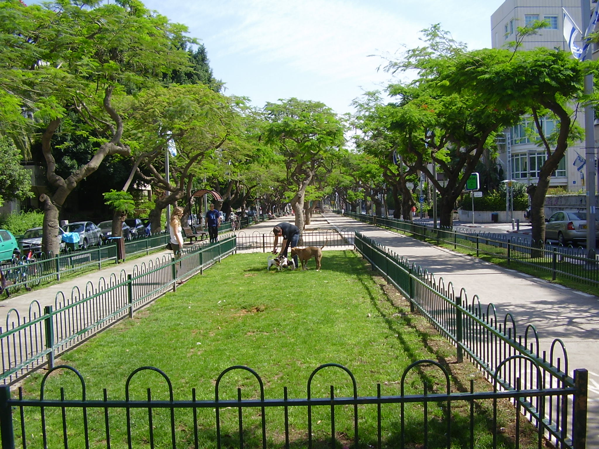 rotshild blvd. in tel-aviv